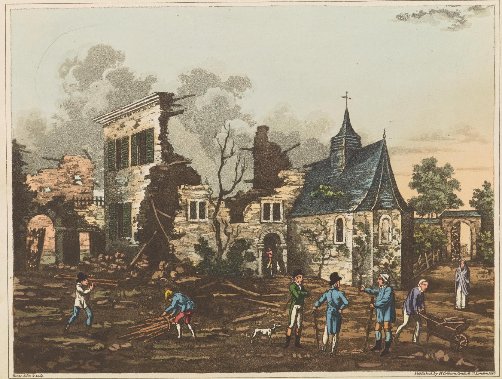 "The interior of Hougoumont, reduced nearly to a heap of ruins". Engraver James Rouse